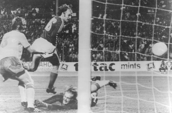 Grzegorz Lato shot the 1:0 winning goal over Ronnie Hellström despite defense of Kent Karlsson during match Poland-Sweden in 1974 FIFA World Cup, 26.06.1974